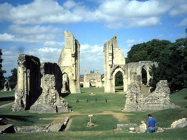 Abbey at Glastonbury. A view of the abbey from the opposite side to the other submission and taken in the summer. The tomb in the foreground is reputedly that of Arthur and Quinevere. Taken between 1994 and 1996